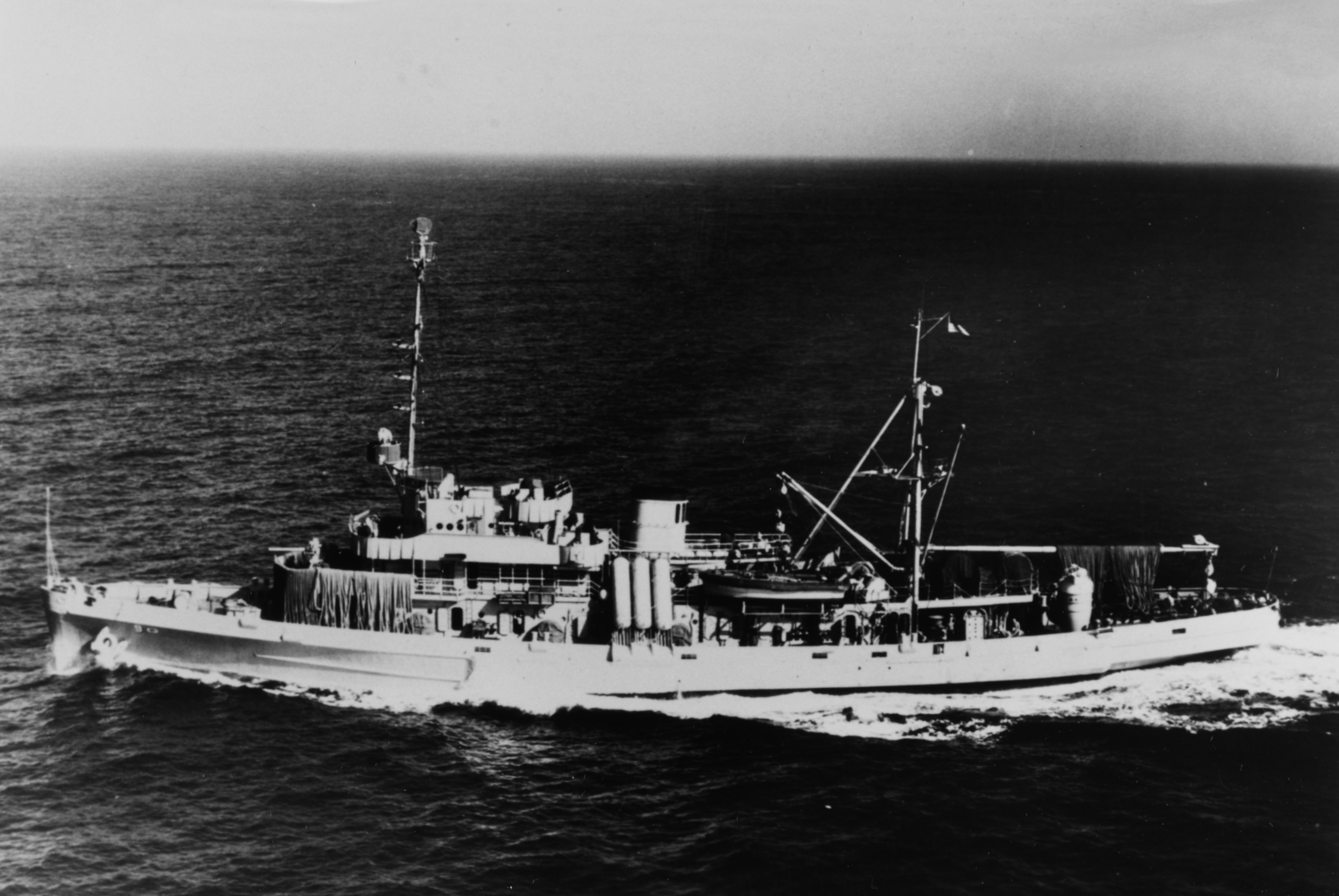 The U.S. Navy submarine rescue ship USS Florikan (ASR-9) underway on 8 August 1957.